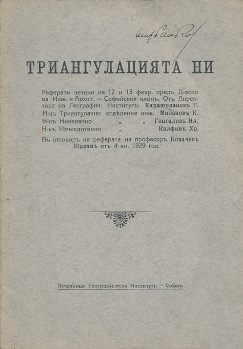 Our Triangulation